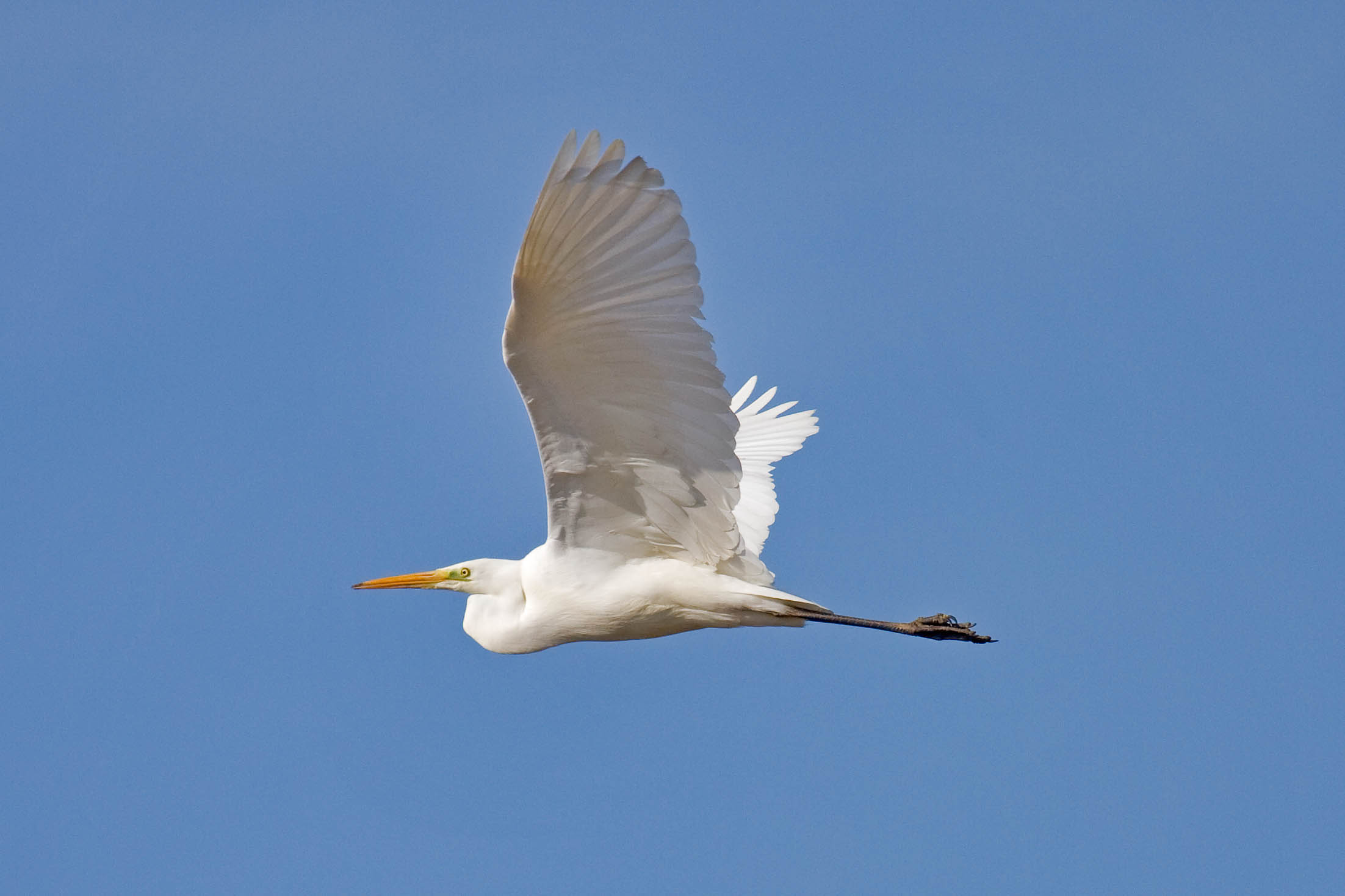 Great Egret